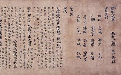 Kan'en (翰苑)